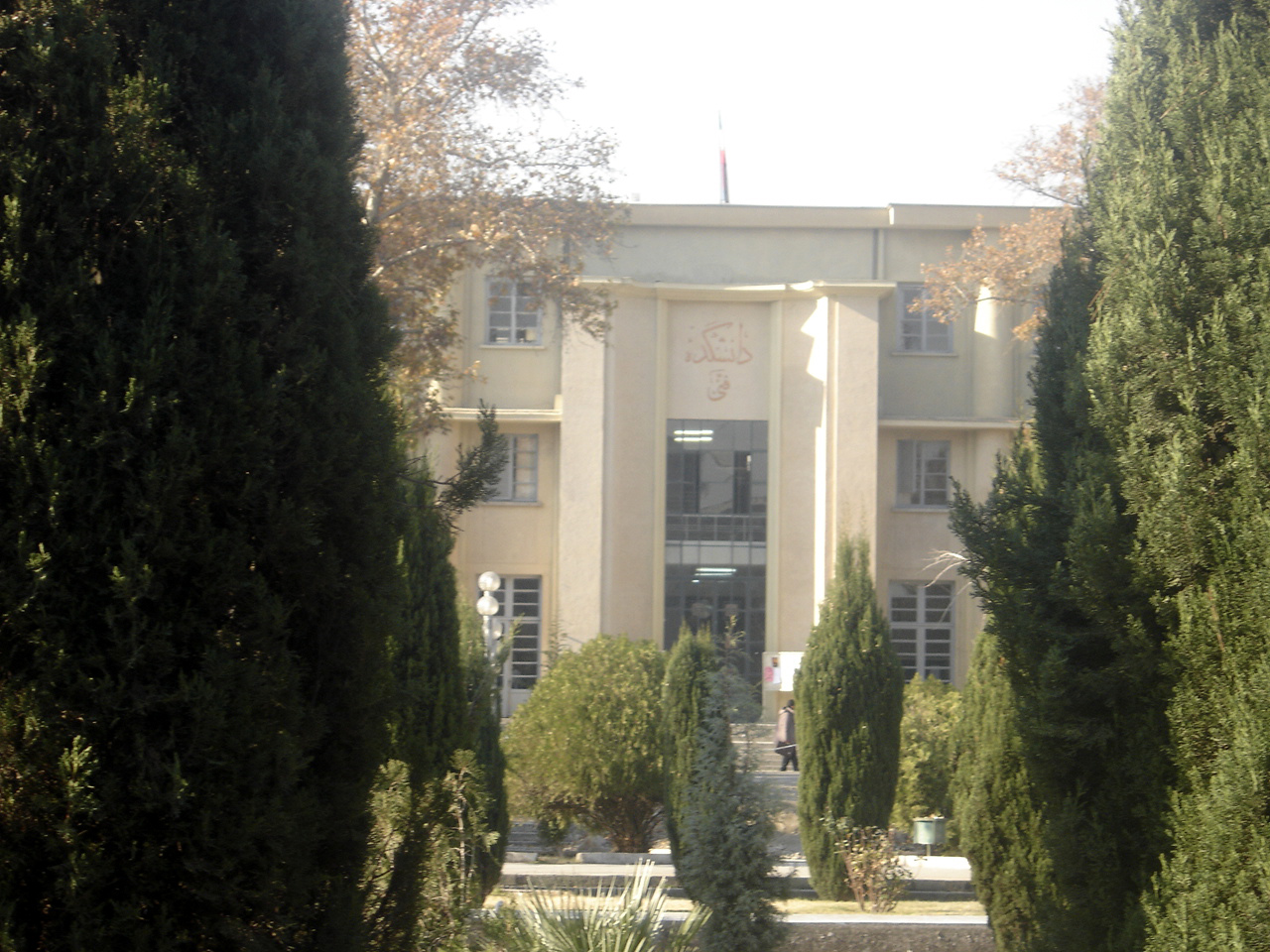 University of Tehran Faculty of Enginering, main campus